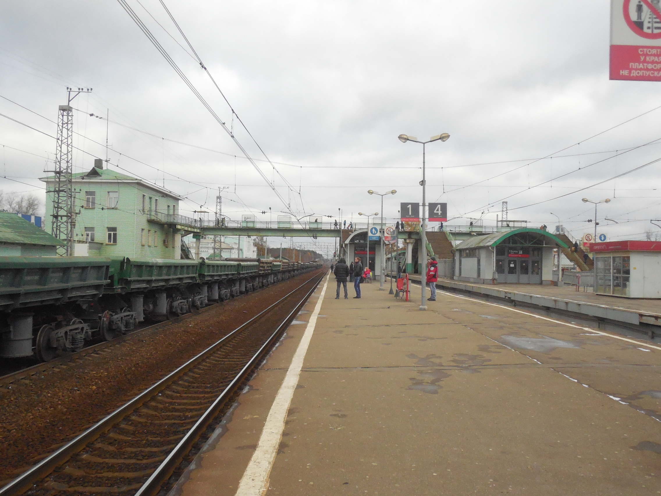 Golitsyno station